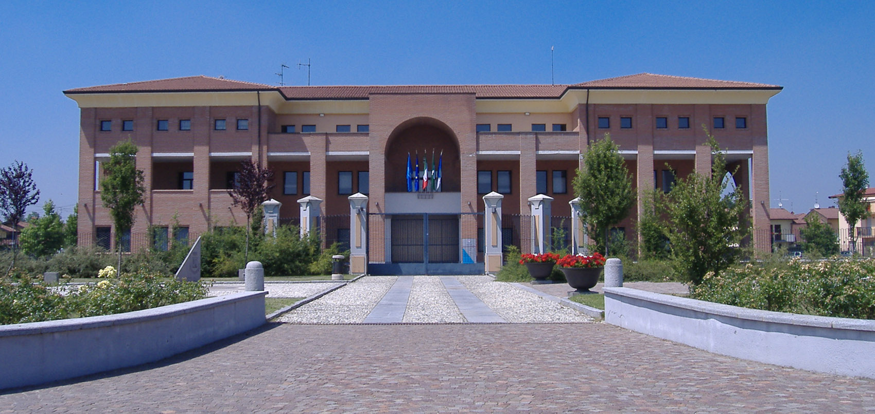 Municipality Palace of Montanaso Lomabrdo, (LO), Italy.